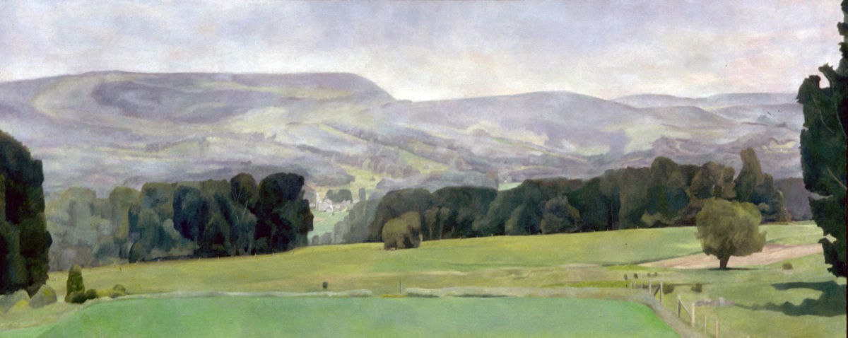 Tyringham Valley, East to Hale Farm-20x60-1979